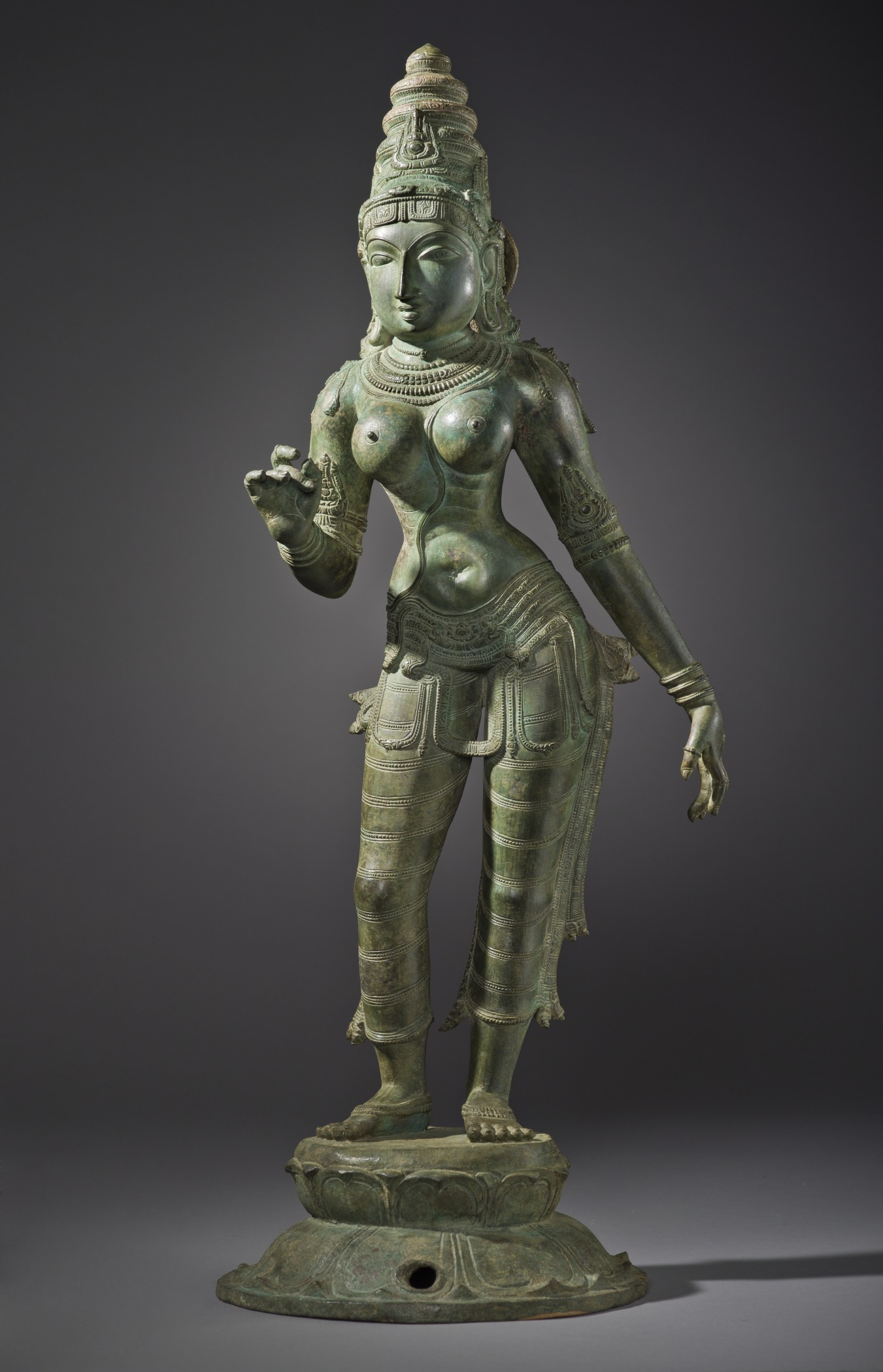 India, Tamil Nadu, 13th century Sculpture Copper alloy Gift of Anna Bing Arnold (M.70.5.3) South and Southeast Asian Art